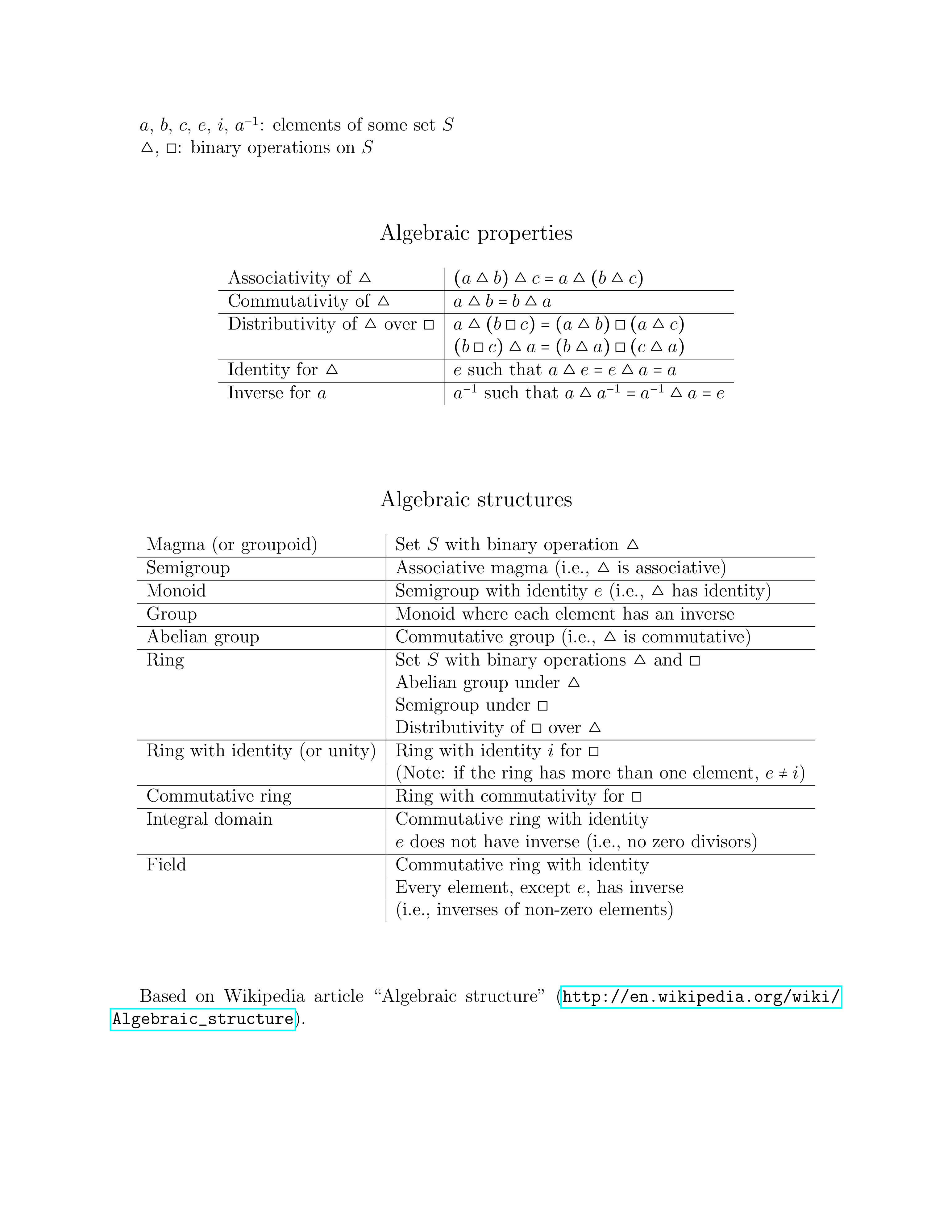 Table of common algebraic structures